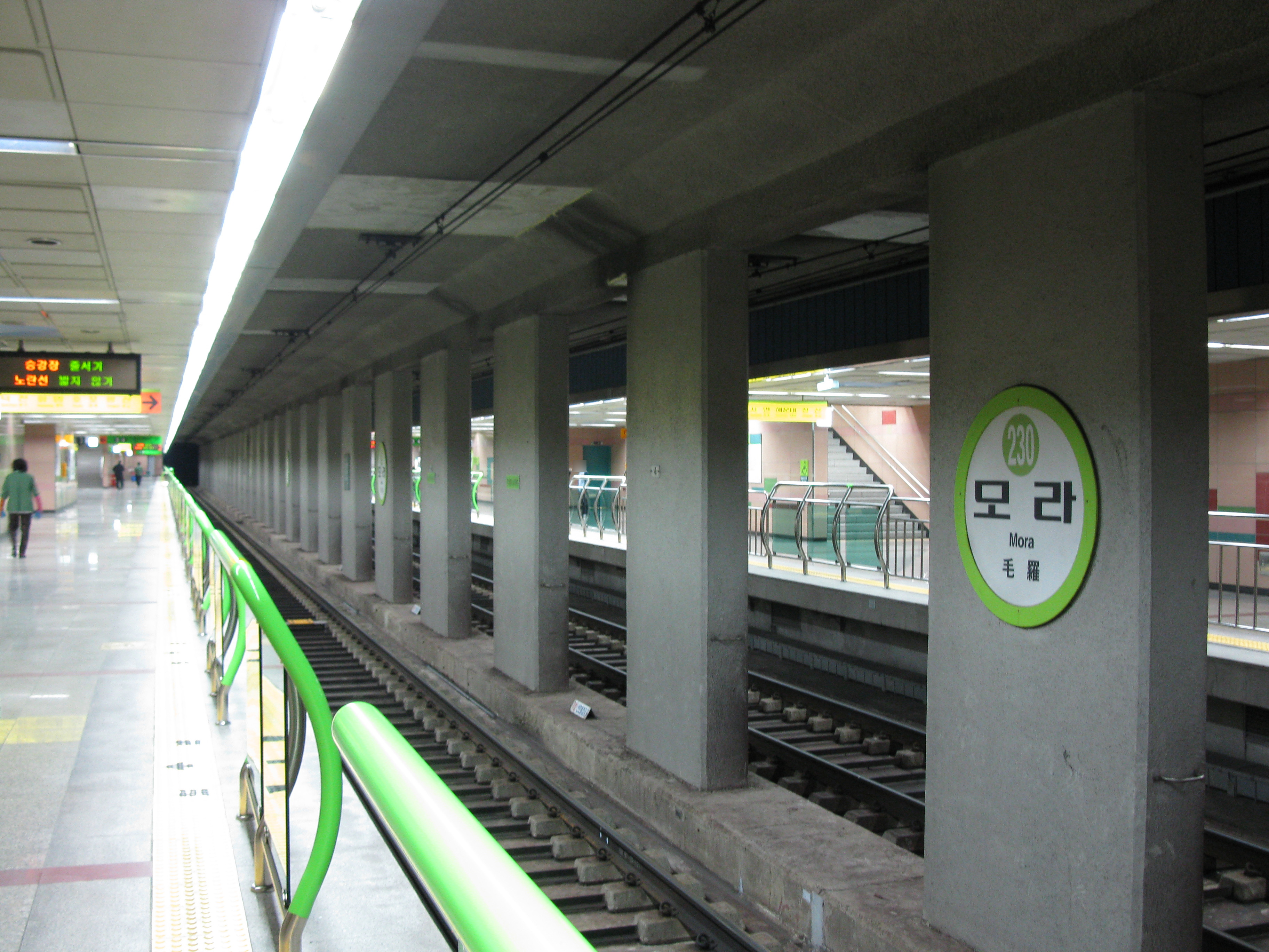 Mora Station platform (Busan Subway Line 2)